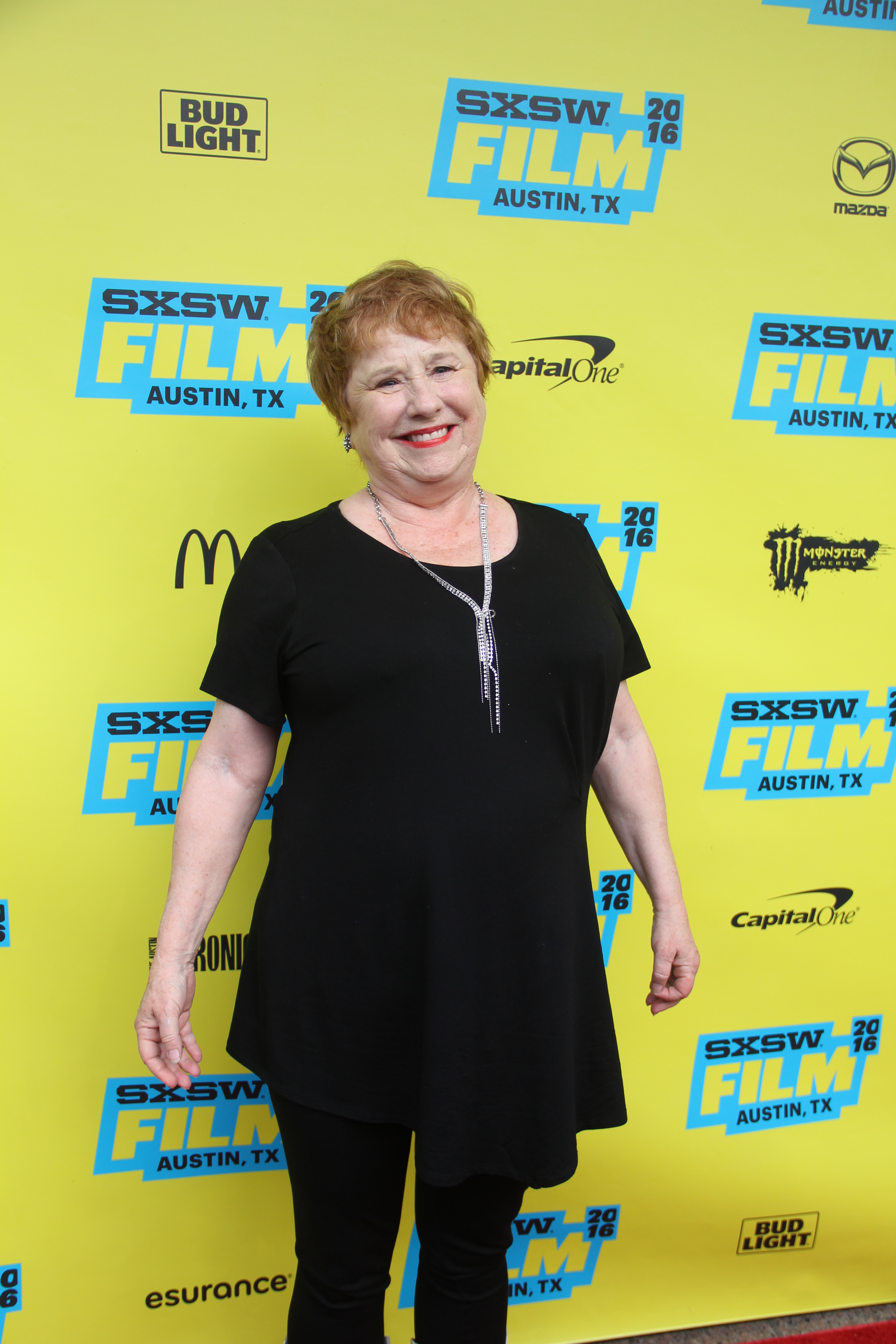 An unidentified woman at the premiere of Pee-Wee's Big Holiday. Taken at SXSW 2016.